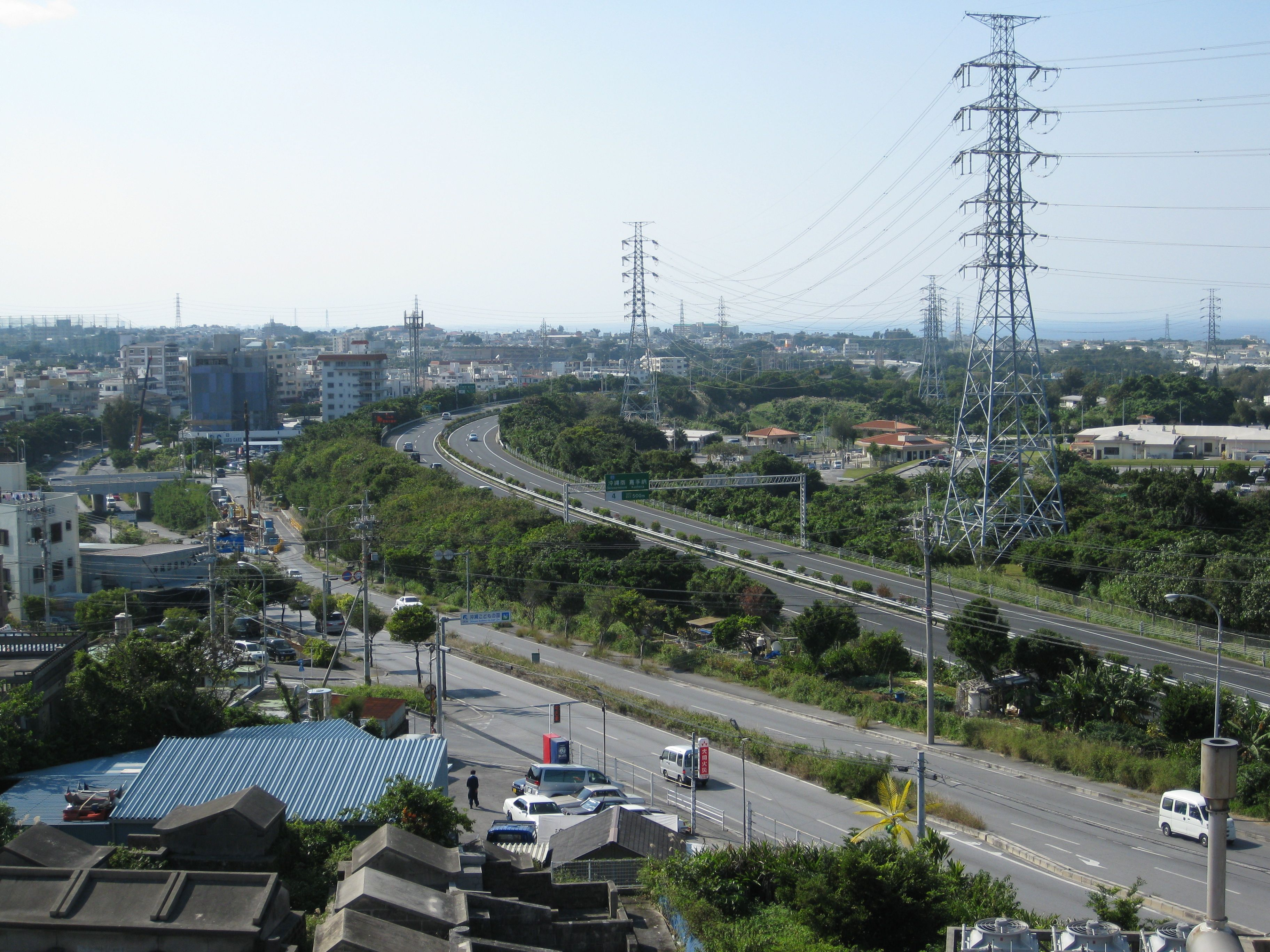 Okinawa Expressway between Okinawa City and Kadena Air Base